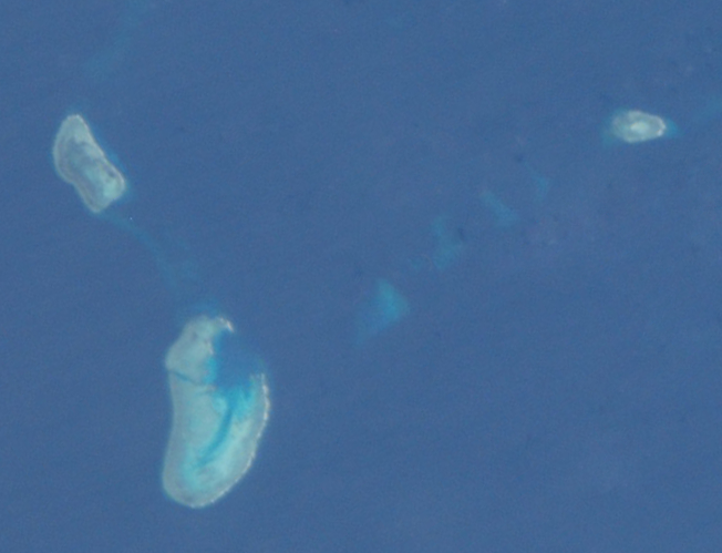 Collins Reef (Johnson North Reef), Johnson Reef (Johnson South Reef) & Lansdowne Reef are parts of Union Reefs in Spratly Islands.